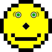 The optimal result of the Acid2 test